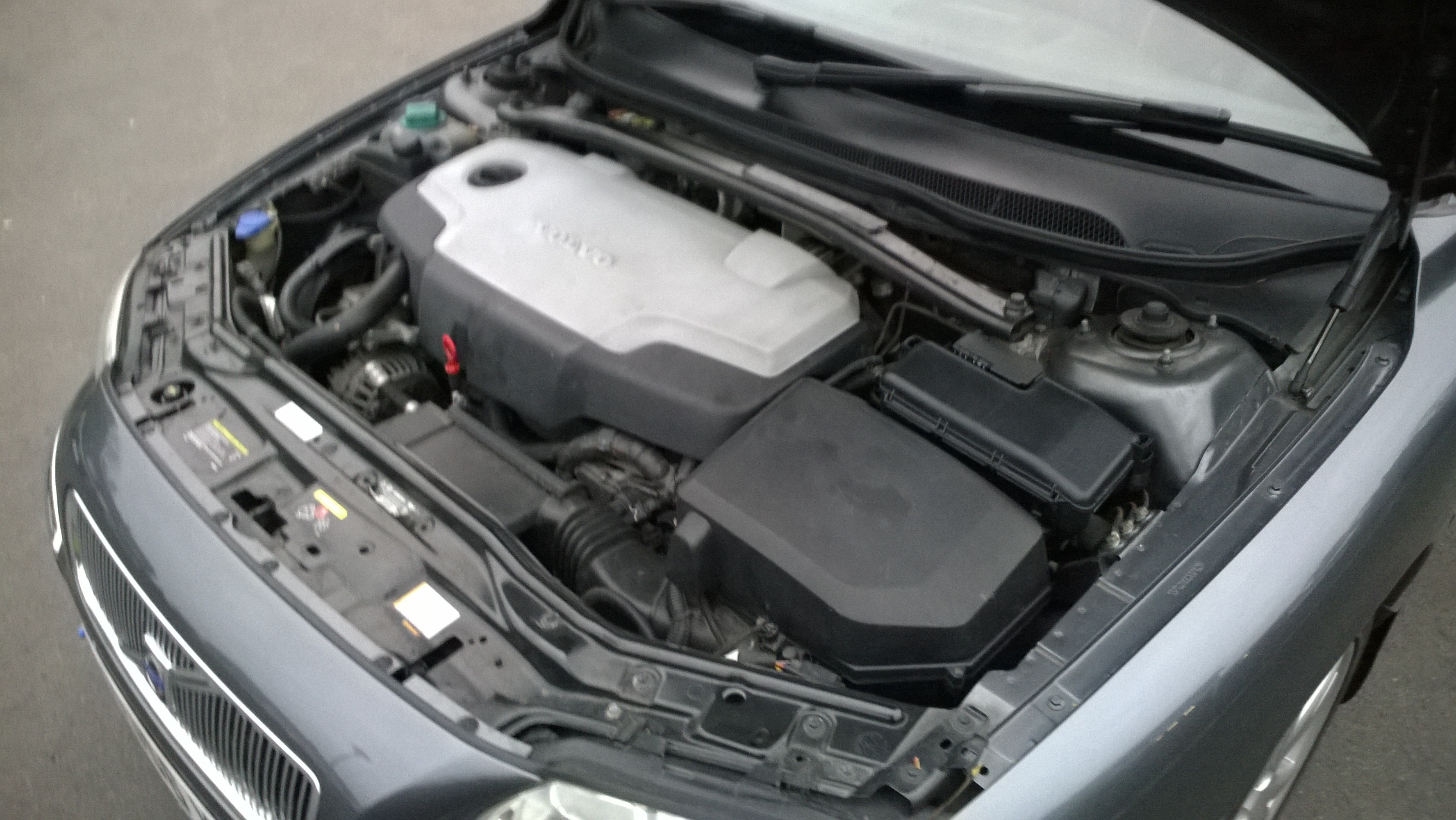 V70 second generation engine compartment (RHD 2.4D Auto SE Lux spec)